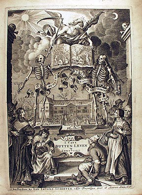 Engraving showing Landgoed Sorgvliet, Jacob Cats' house in The Hague.